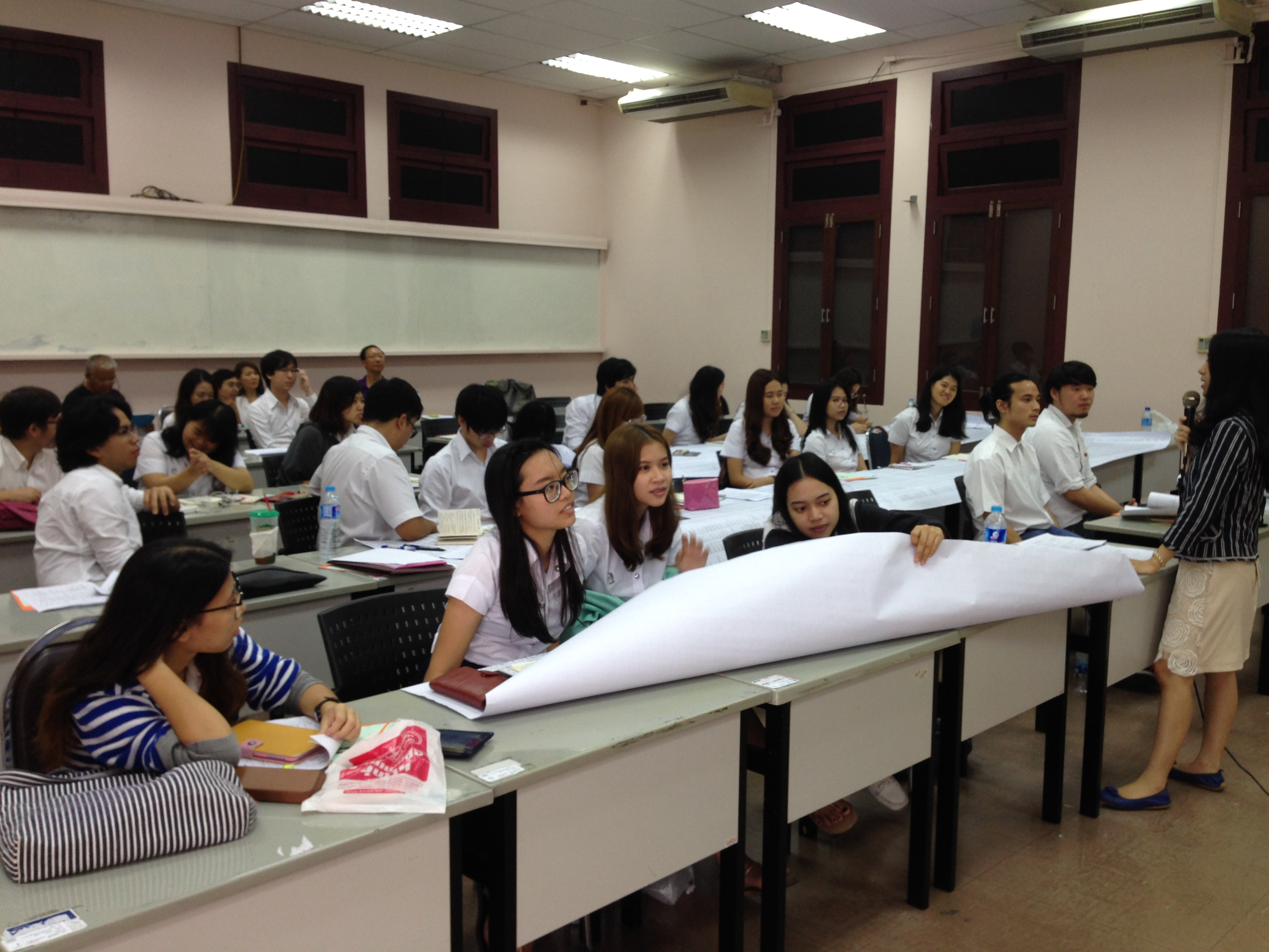 Chulalongkorn University